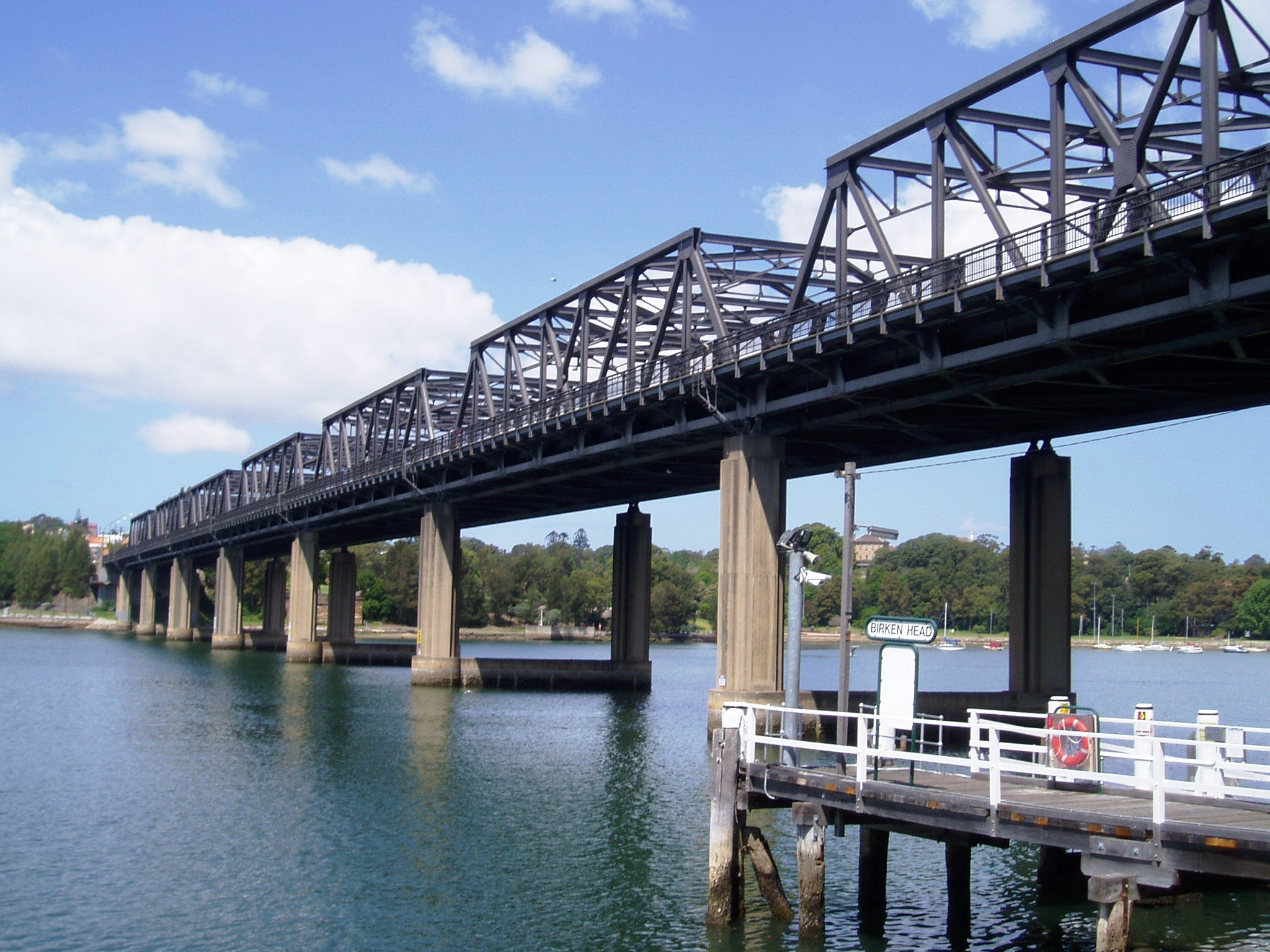 Sydney Ferries Birkenhead wharf in front of the Iron Cove Bridge.